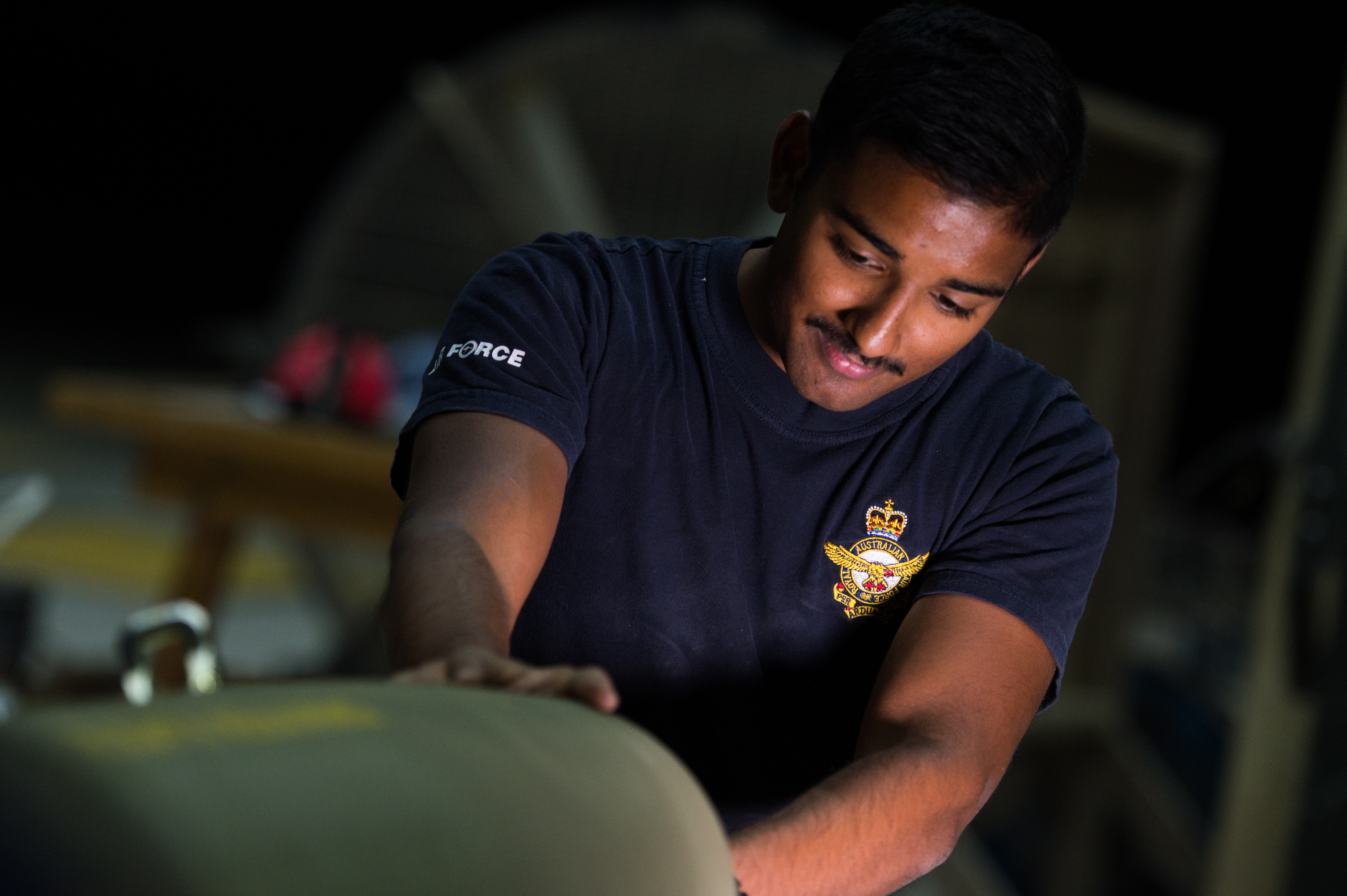 Leading Aircraftman Stefan, an armament technician with the Royal Australian Air Force 77 Squadron, constructs a Joint Direct Attack Munition at an undisclosed location in Southwest Asia, Feb. 9, 2016. During Operation Inherent Resolve Coalition partners have worked side by side to complete mission requirements. (U.S. Air Force photo/Senior Airman Tyler Woodward)